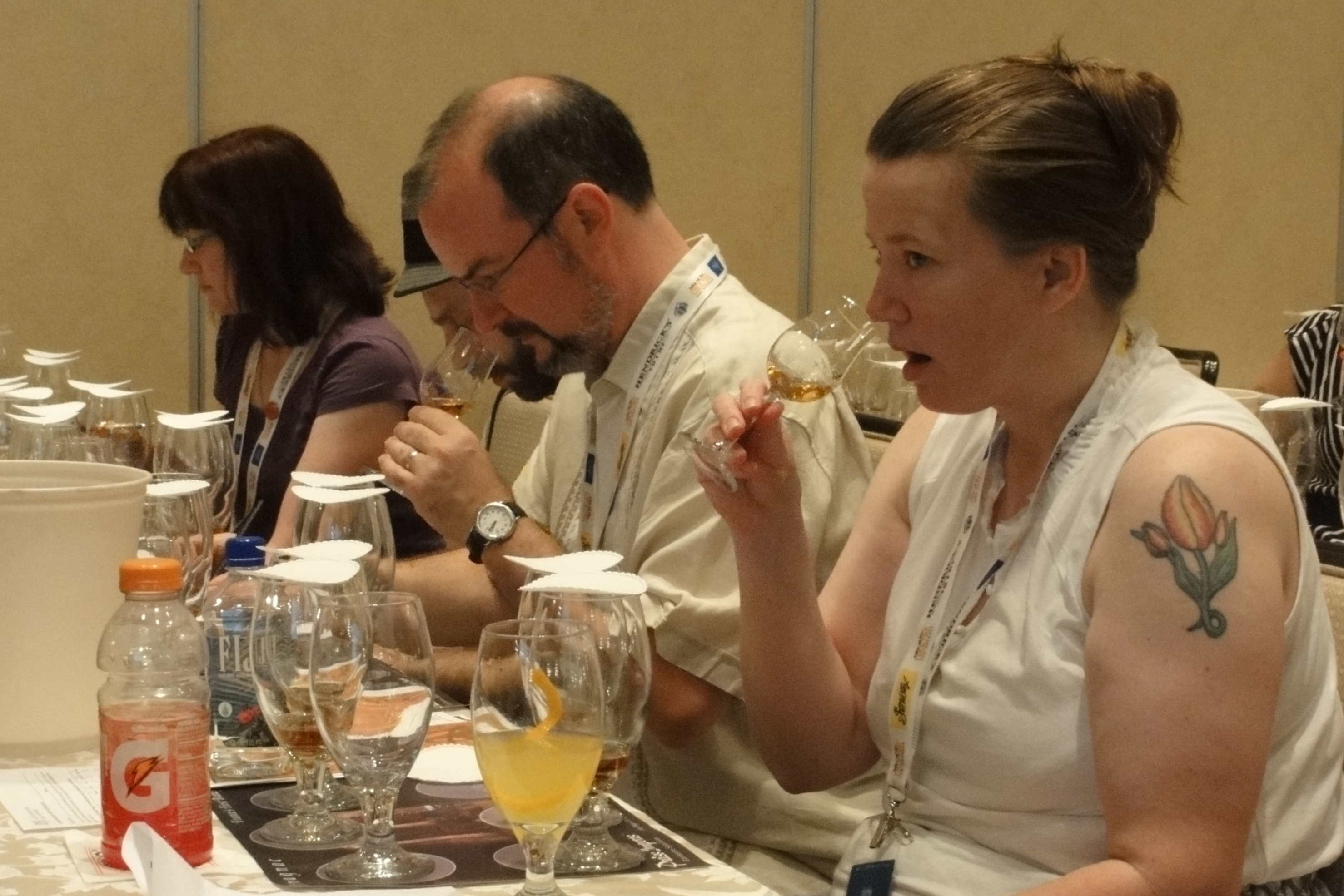 Tales of the Cocktail, New Orleans. Smelling.